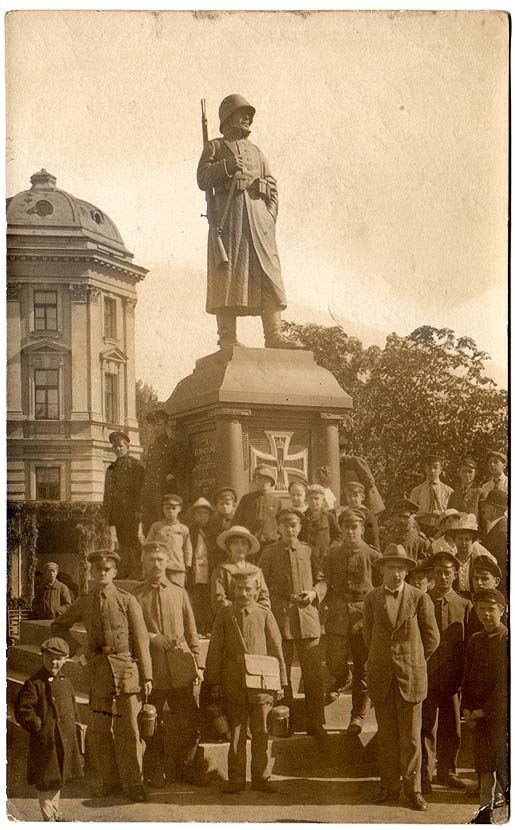 Memorial to the First Anniversary of the Liberation of Riga by the German Army.(The memorial had a very short lifetime of three month (September/November 1918) until Riga was liberated by the Latvian Army during the civil war that followed World War I).